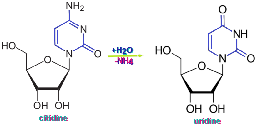 Biological citidine conversion to uridine